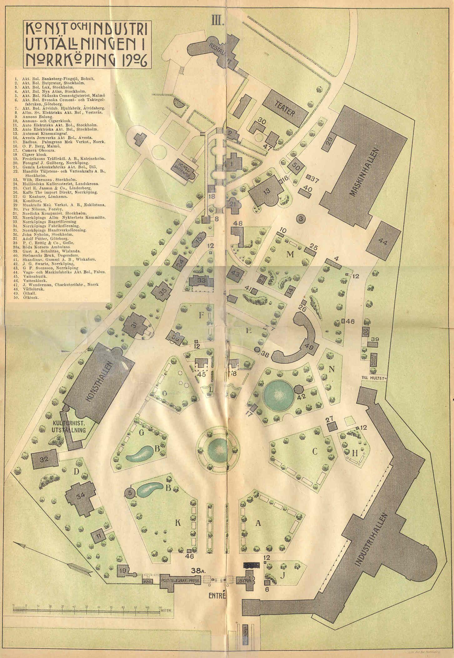 Map of exhibition area during the Industrial and art exhibition in Norrköping, Sweden, the summer 1906.